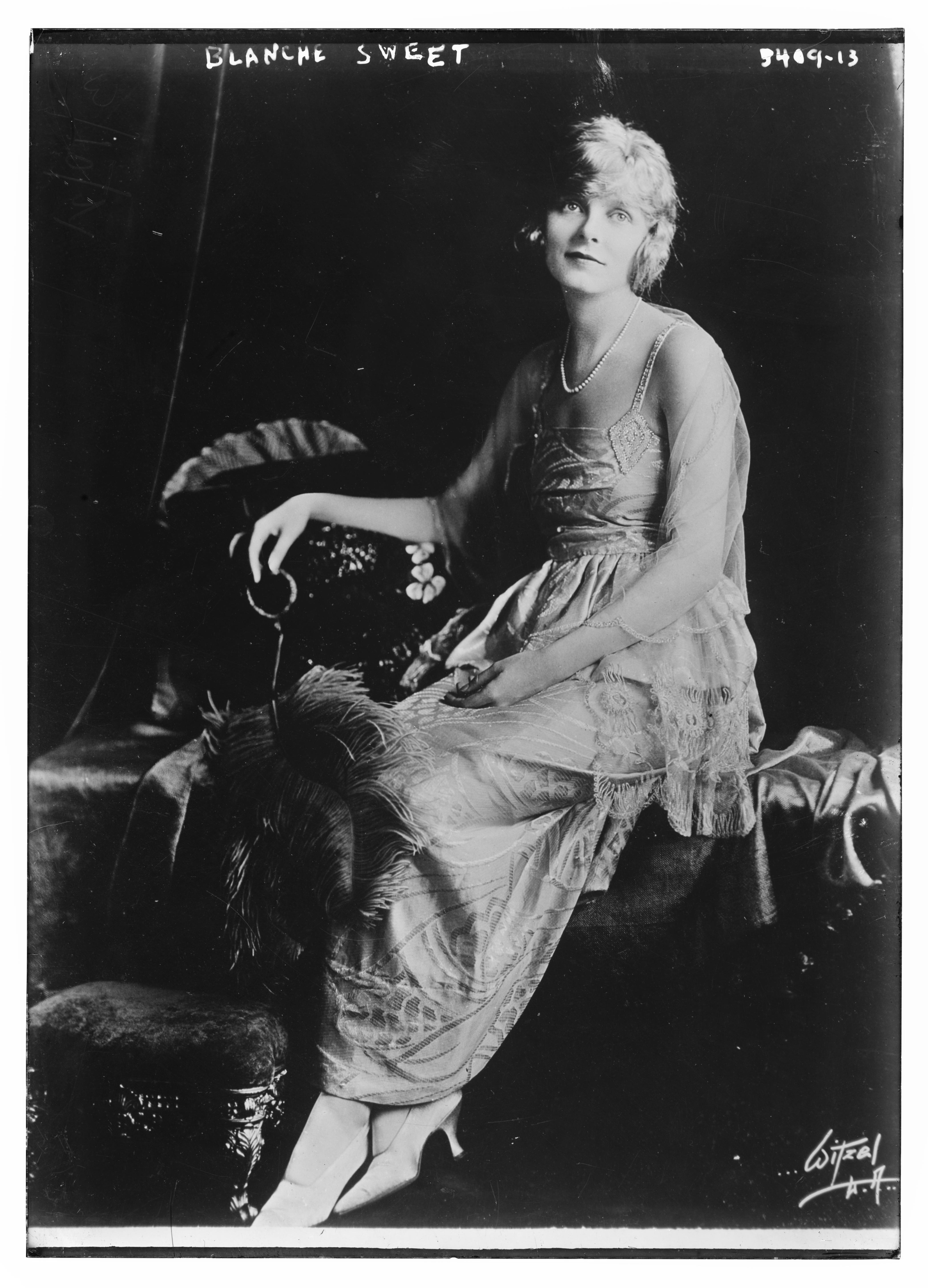 Actress Blanche Sweet